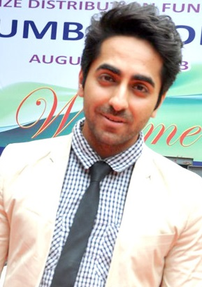 Ayushmann Khurrana at the Mumbai Police Mission Mrityunjay prize distribution function